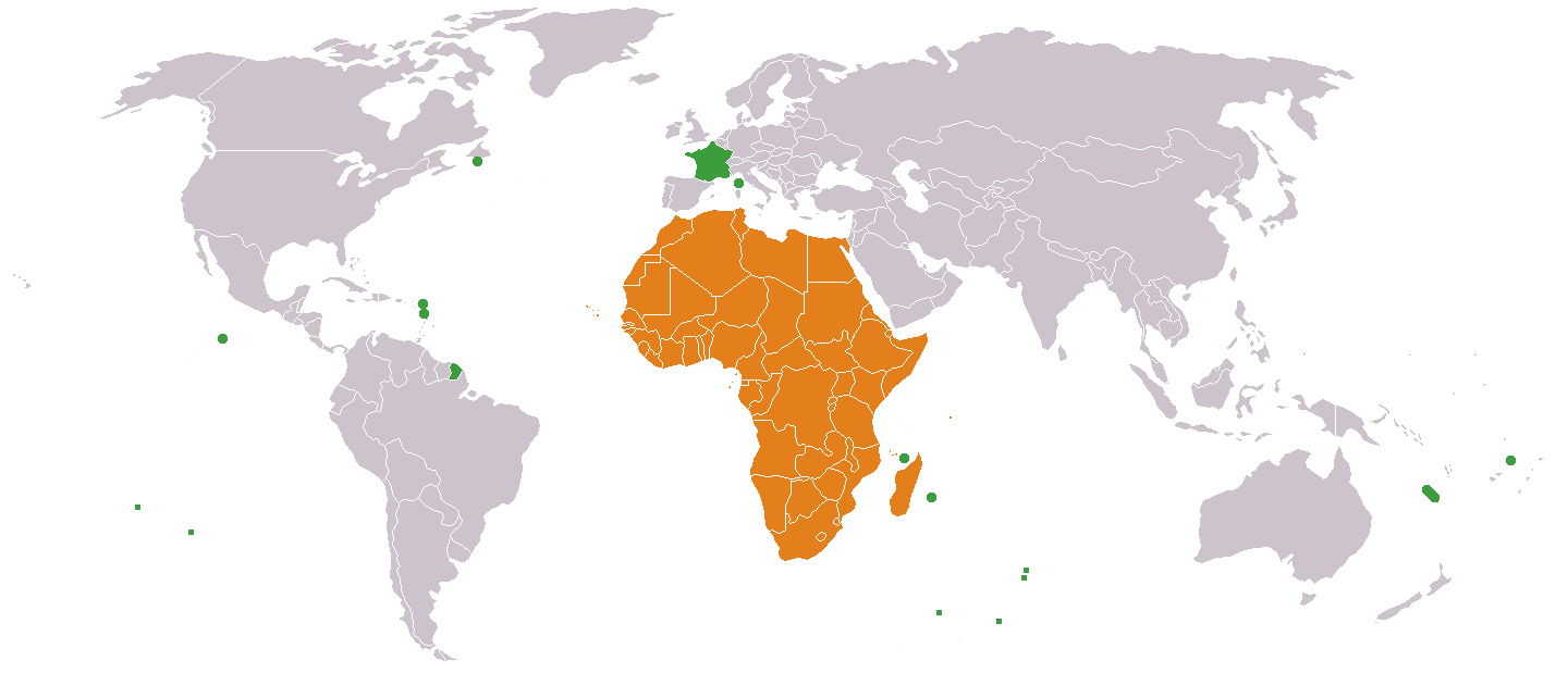 Map showing the locations of the French Republic (green) and the continent of Africa (orange)